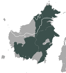 Maroon Leaf Monkey (Presbytis rubicunda) range